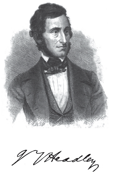 Image of Rev. Joel Tyler Headley.